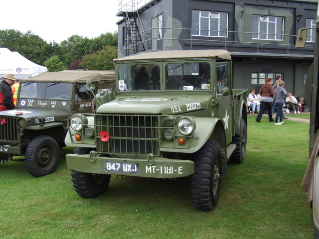 RAFBF 90th Birthday Air Show, East Kirkby